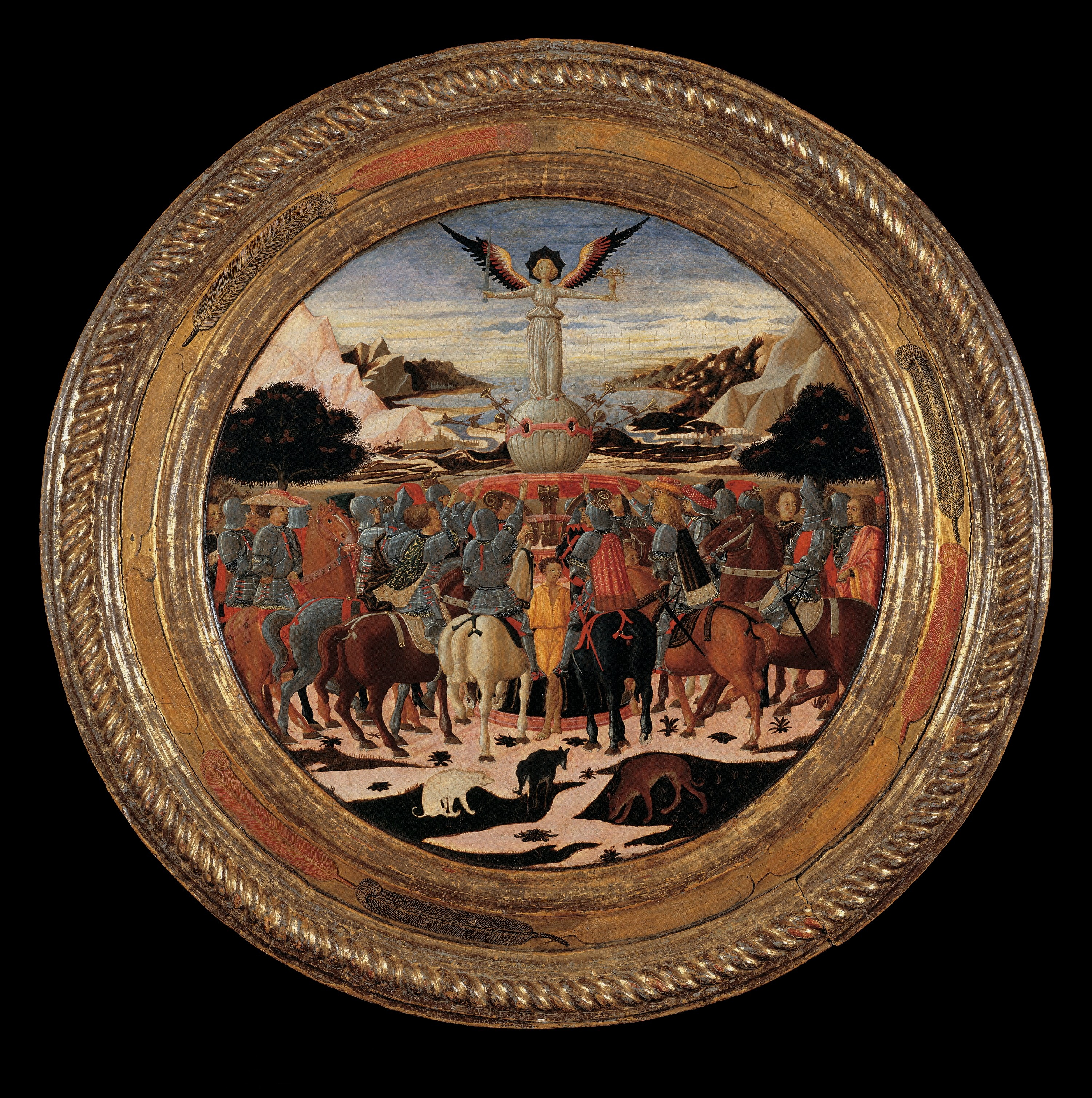 Lo Scheggia, Trionfo della Fama, 1448-9, Metropolitan Museum, New York